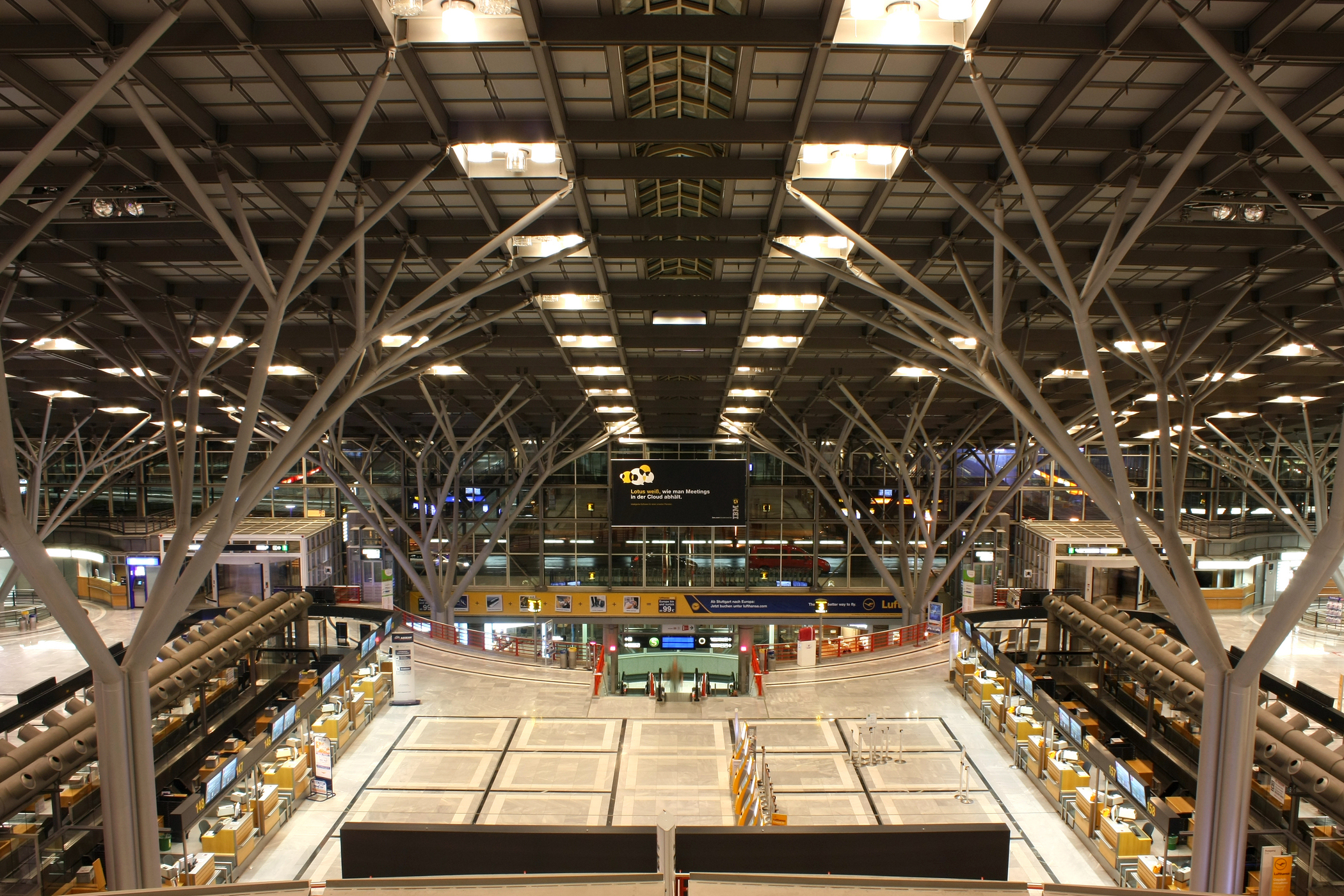 Terminal 1 of Stuttgart Airport